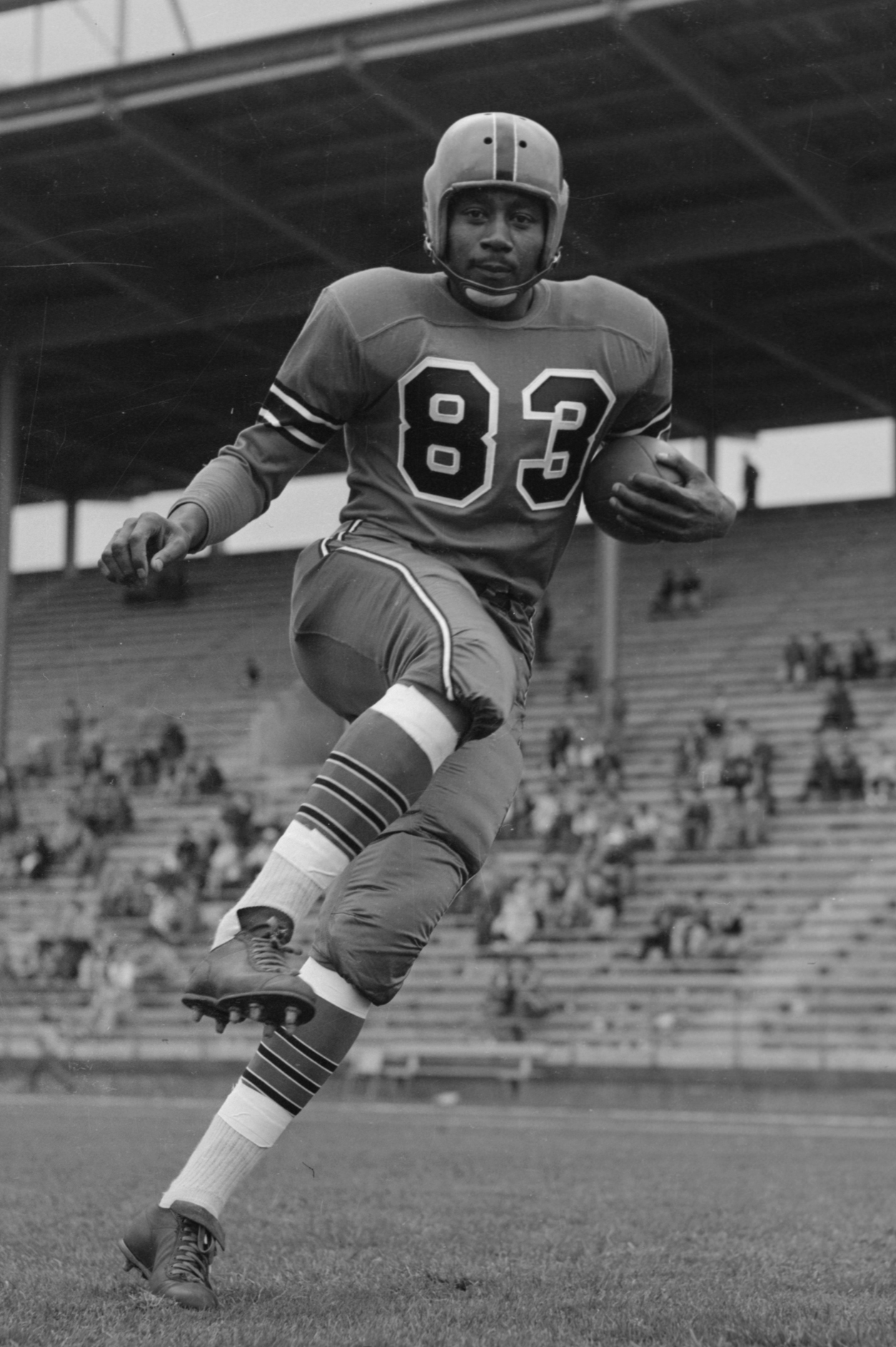 B.C. Lions football club, Jim Chambers, Number 83 VPL Accession Number: 84780F Date: July 10, 1954 Photographer/Studio: Jones, Art Content: Part of a series 84780+ (63 photos) Topic: Sports Sports teams Football players Costume Sports uniforms Person: Chambers, Jim (B.C. Lions Football club) Organization: B.C. Lions Football Club Location: British Columbia - Vancouver More information on our historical photograph collection